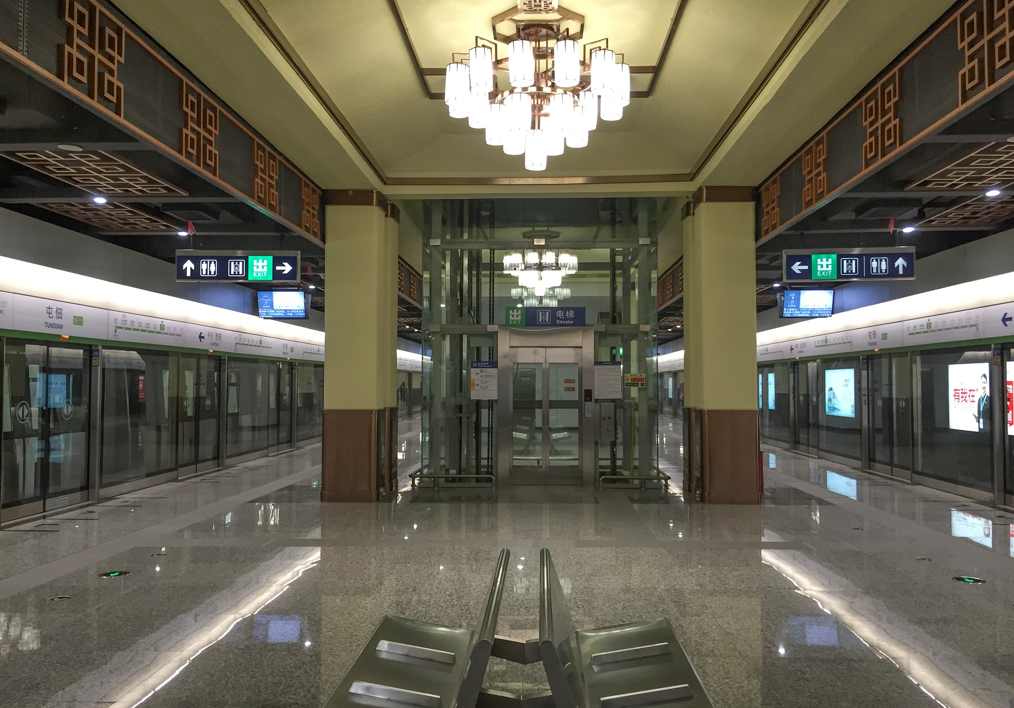 The underground palace comes to its 4th station.